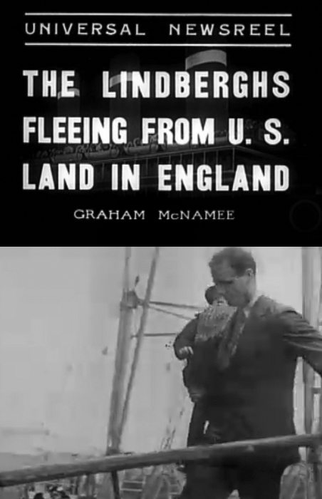 Charles Lindbergh and son, Jon, arriving in Liverpool, England, on the freighter S.S. American Importer in January, 1936.